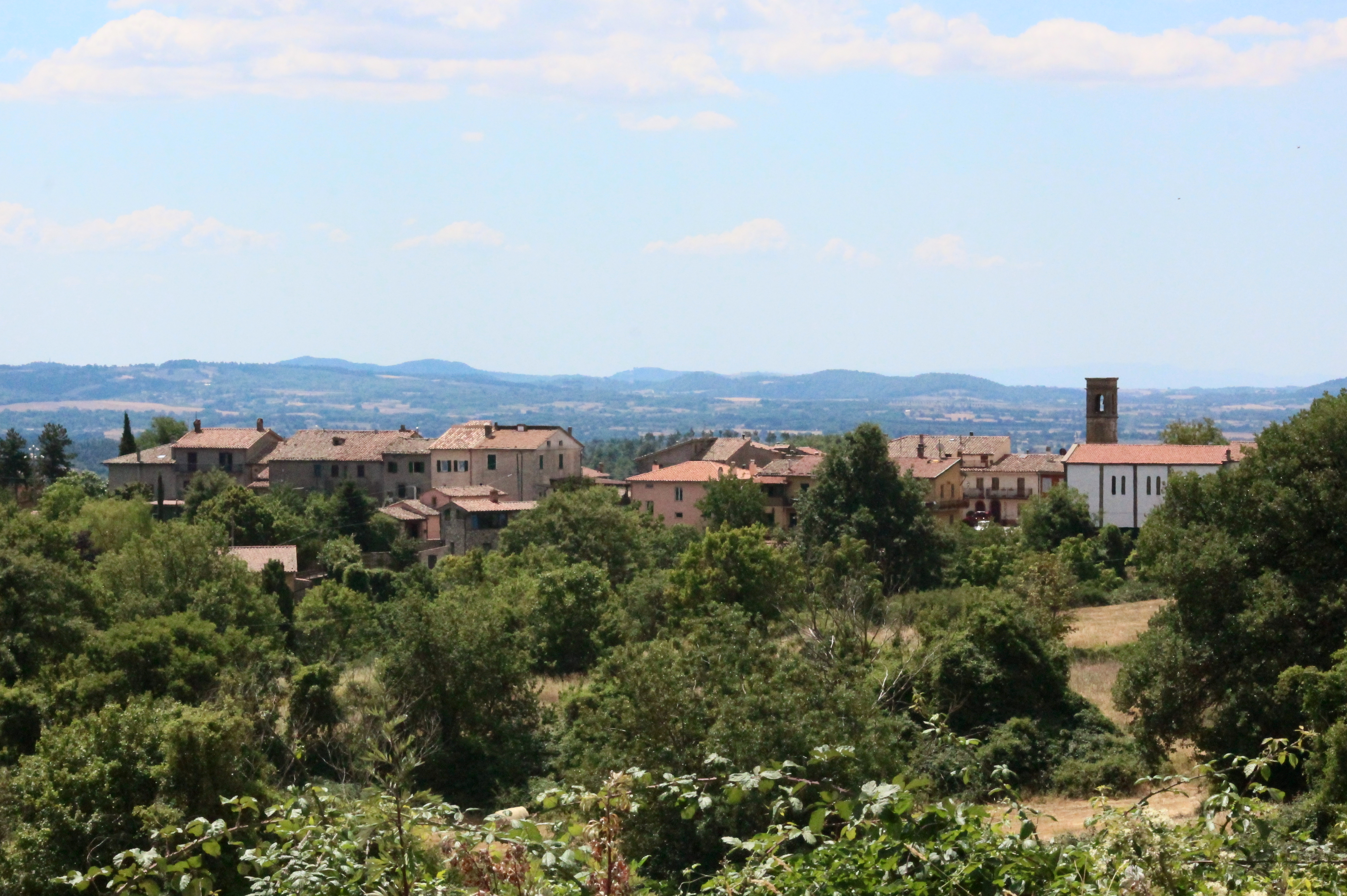 Panorama of Montevitozzo, hamlet of Sorano, Province of Grosseto, Tuscany, Italy